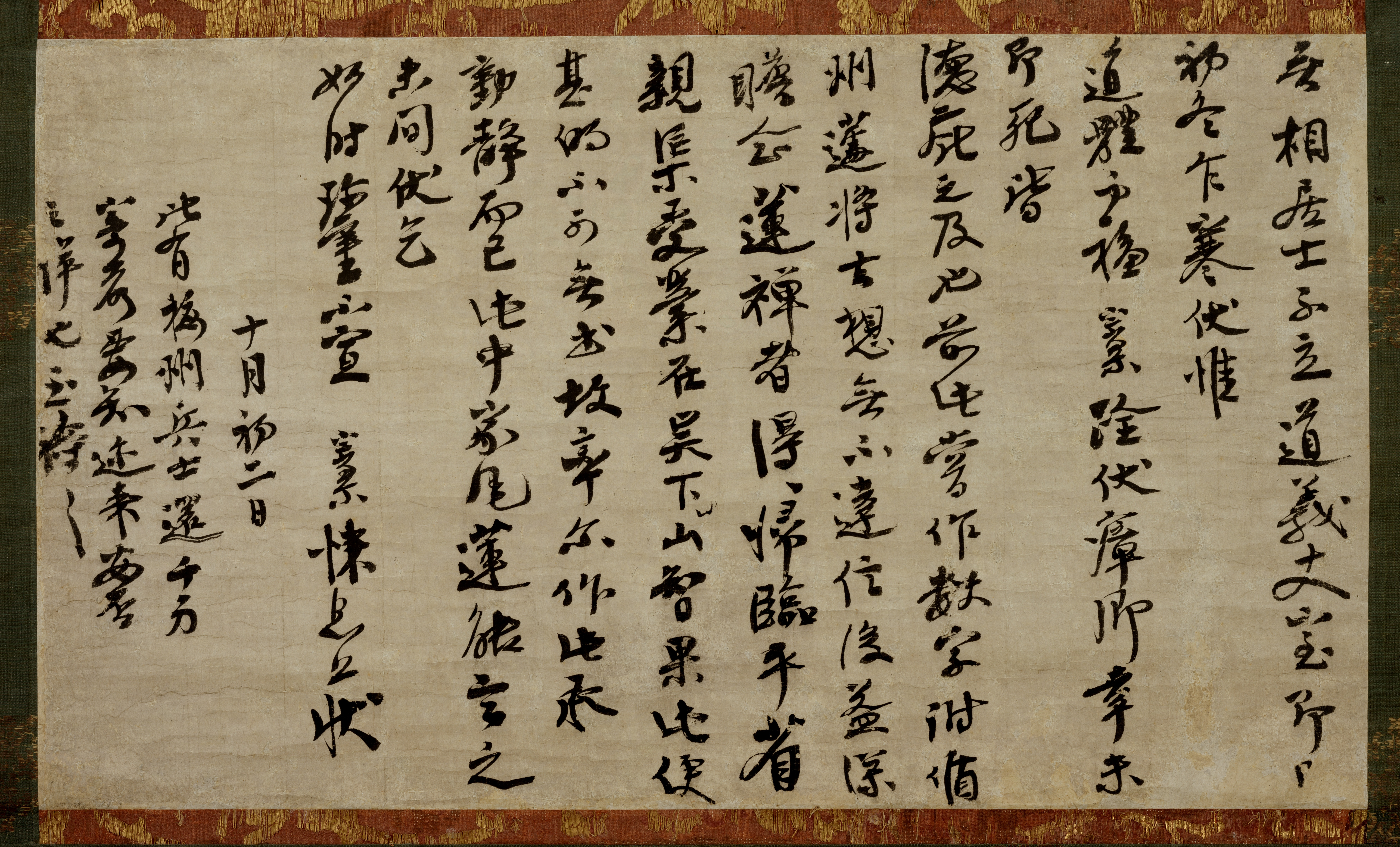 Letter of Dahui Zonggao (尺牘, sekitoku). Letter from Dahui's exile in Meizhou to his friend, the lay practitioner Wuxiang. One hanging scroll, ink on paper, 37.9 × 65.5 cm (14.9 × 25.8 in). Located at the Tokyo National Museum, Tokyo.